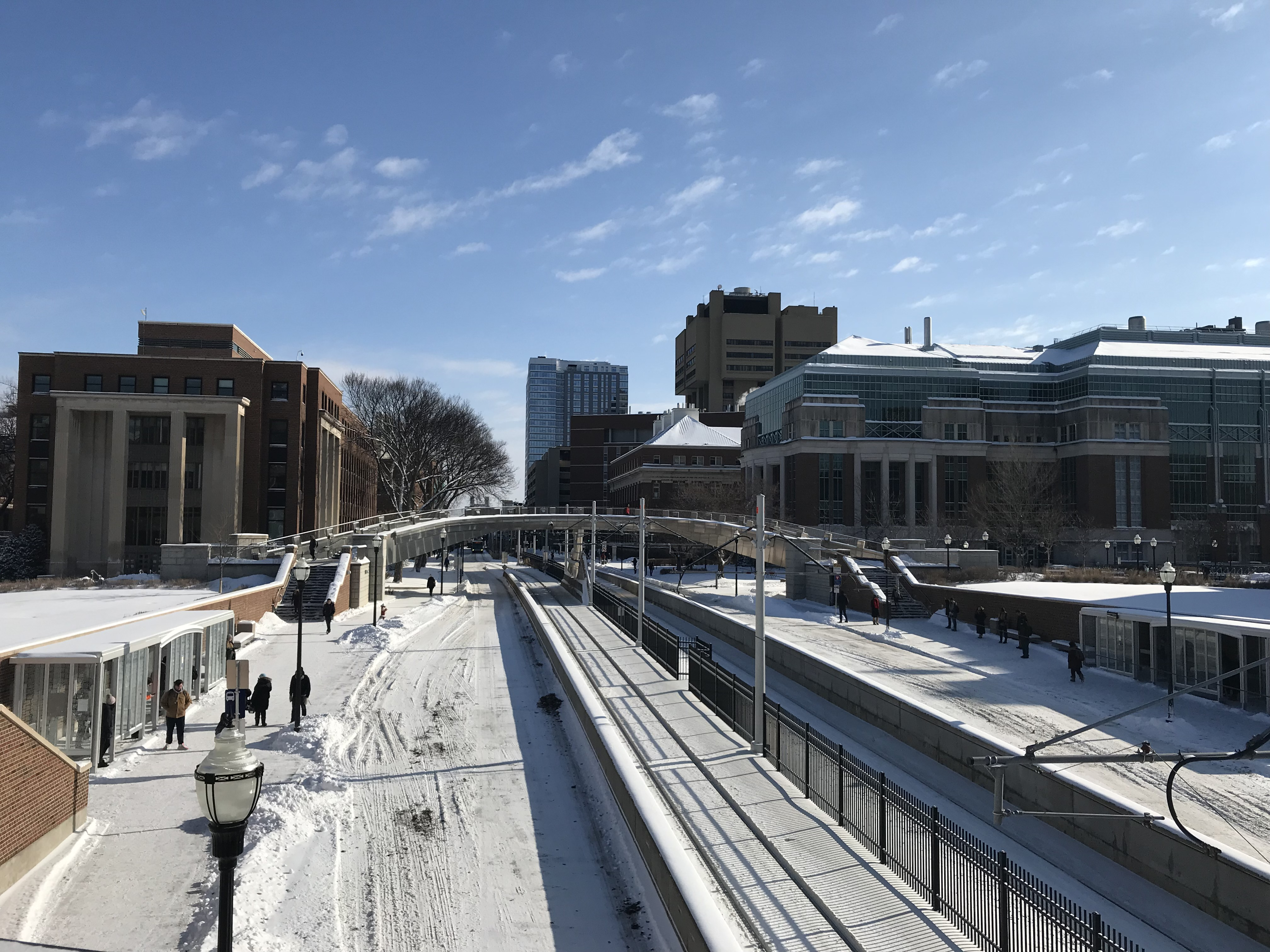 The light rail runs through the East Bank campus of UMN. Ford Hall is on the left and Nils Hasselmo Hall is on the right of the picture.